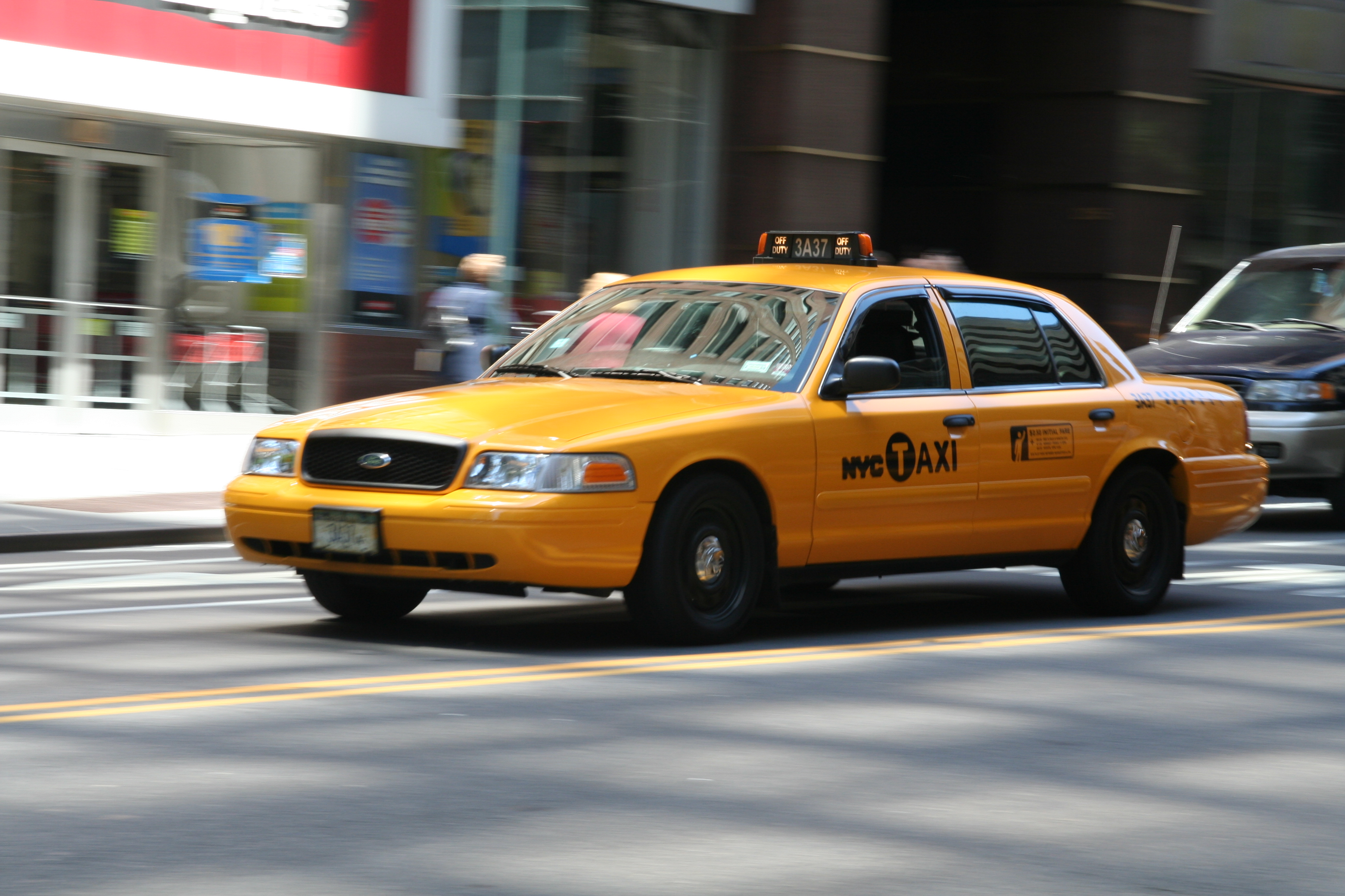 New York Taxi - Ford Crown Victoria